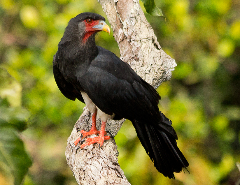 Red-throated Caracara Ibycter americanus, taken at the Nouragues Research station in Central French Guiana, April 2011